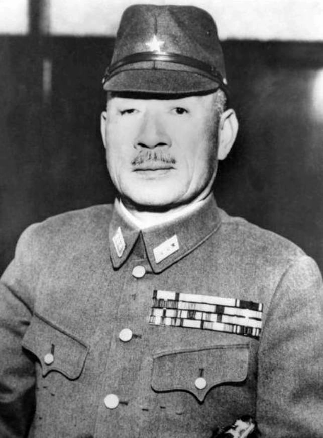 Marshal Hajime Sugiyama, Minister of War of the Japanese Empire